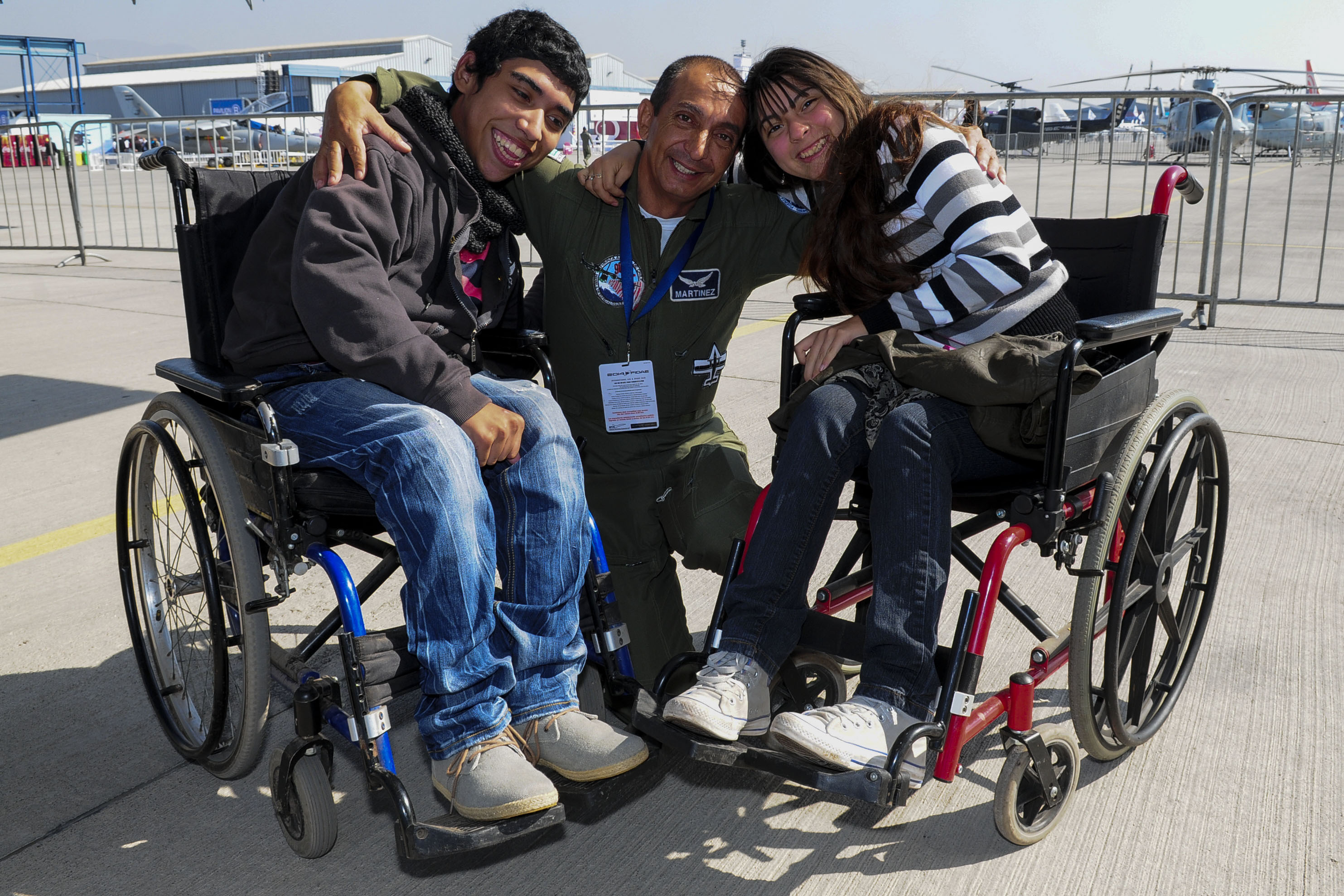 A Chilean pilot poses for a photo with two children from the Teletón Foundation at the FIDAE Air Show in Santiago, Chile, March 26. Nearly 60 U.S. airmen are participating in subject matter expert exchanges with Chilean air force counterparts during FIDAE, and as part of the events are hosting static displays of the C-130 Hercules and F-16 Fighting Falcon. Airmen from the Texas Air National Guard set aside time to host the children before the public days of FIDAE, which are scheduled for the weekend. (U.S. Air Force photo by Senior Master Sgt. Miguel Arellano/Released)